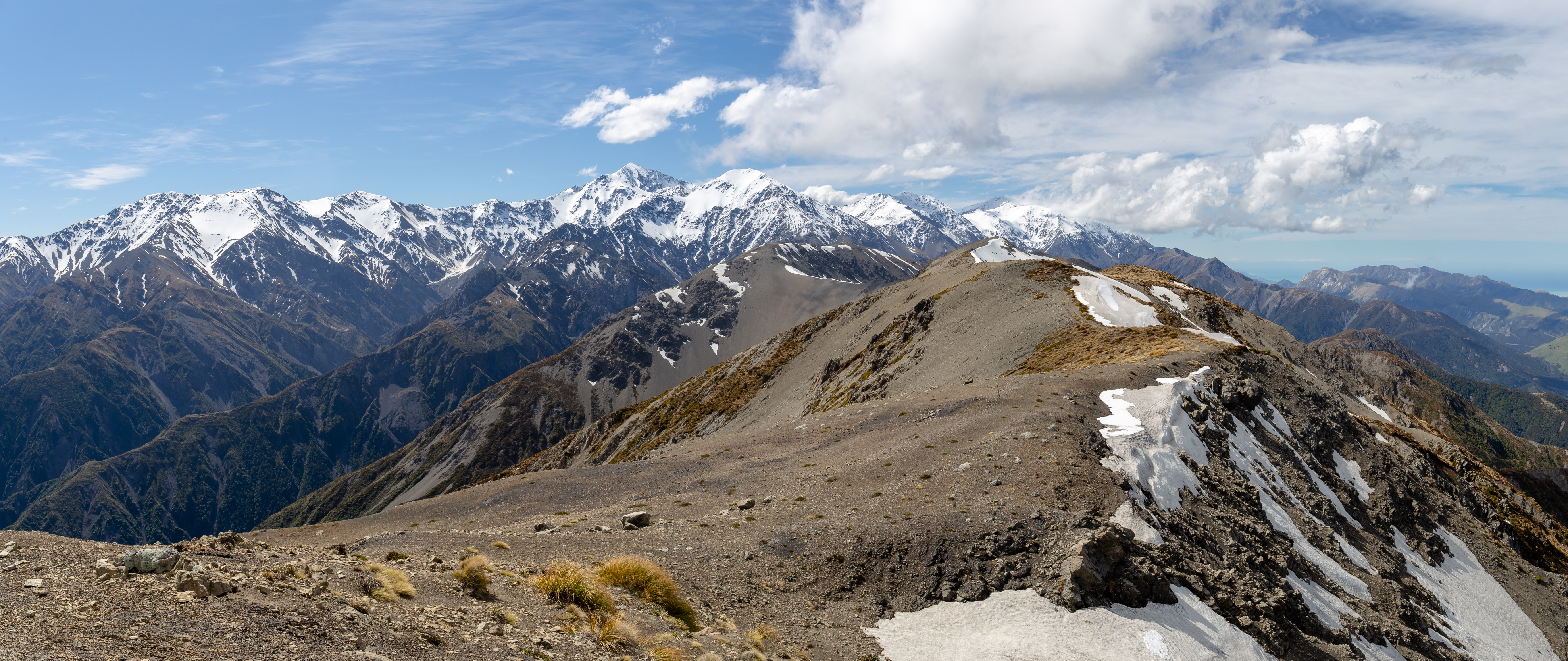 View from Mt Fyffe, Kaikoura Ranges, New Zealand